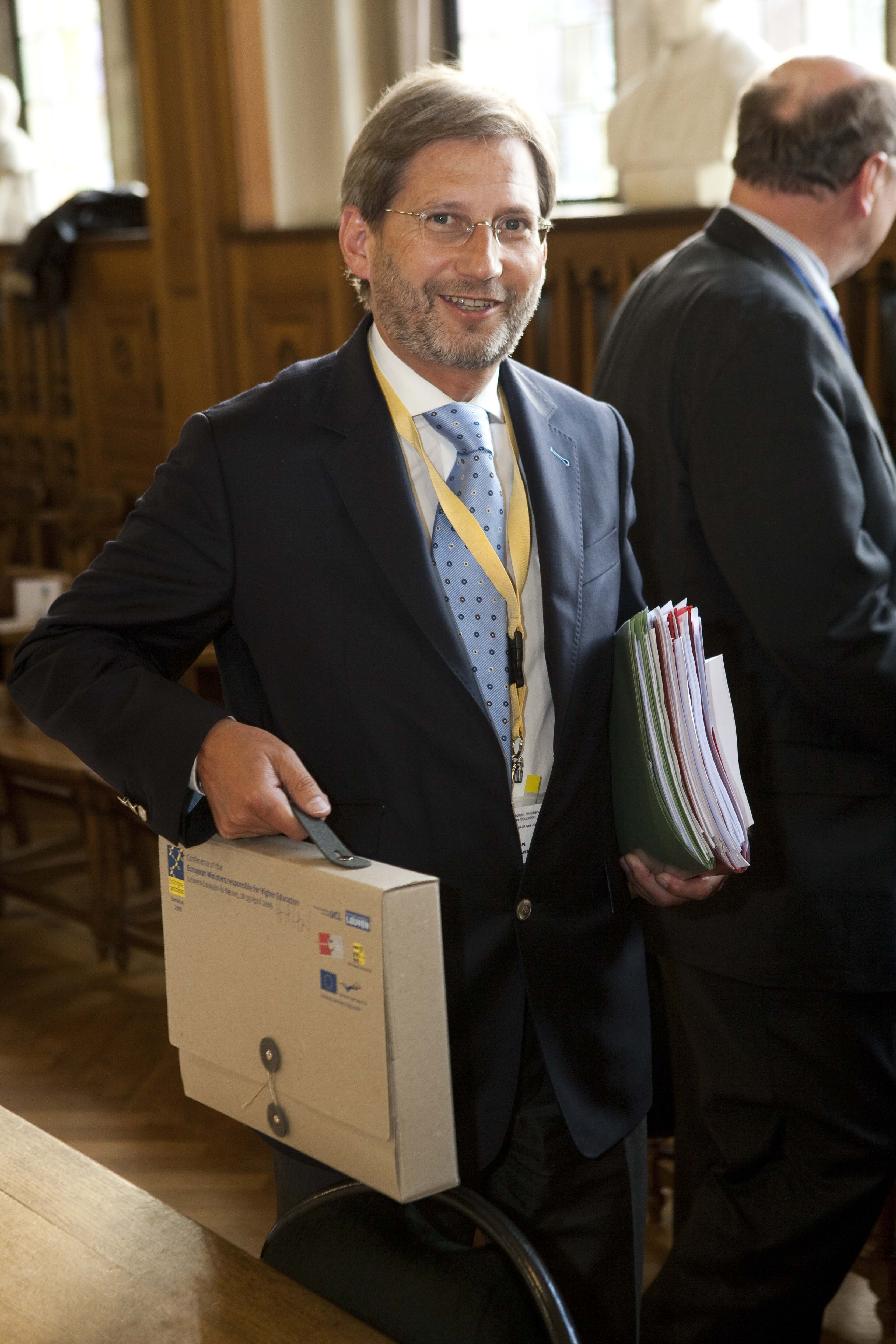 Austrian politician, minister Johannes Hahn (Politiker)